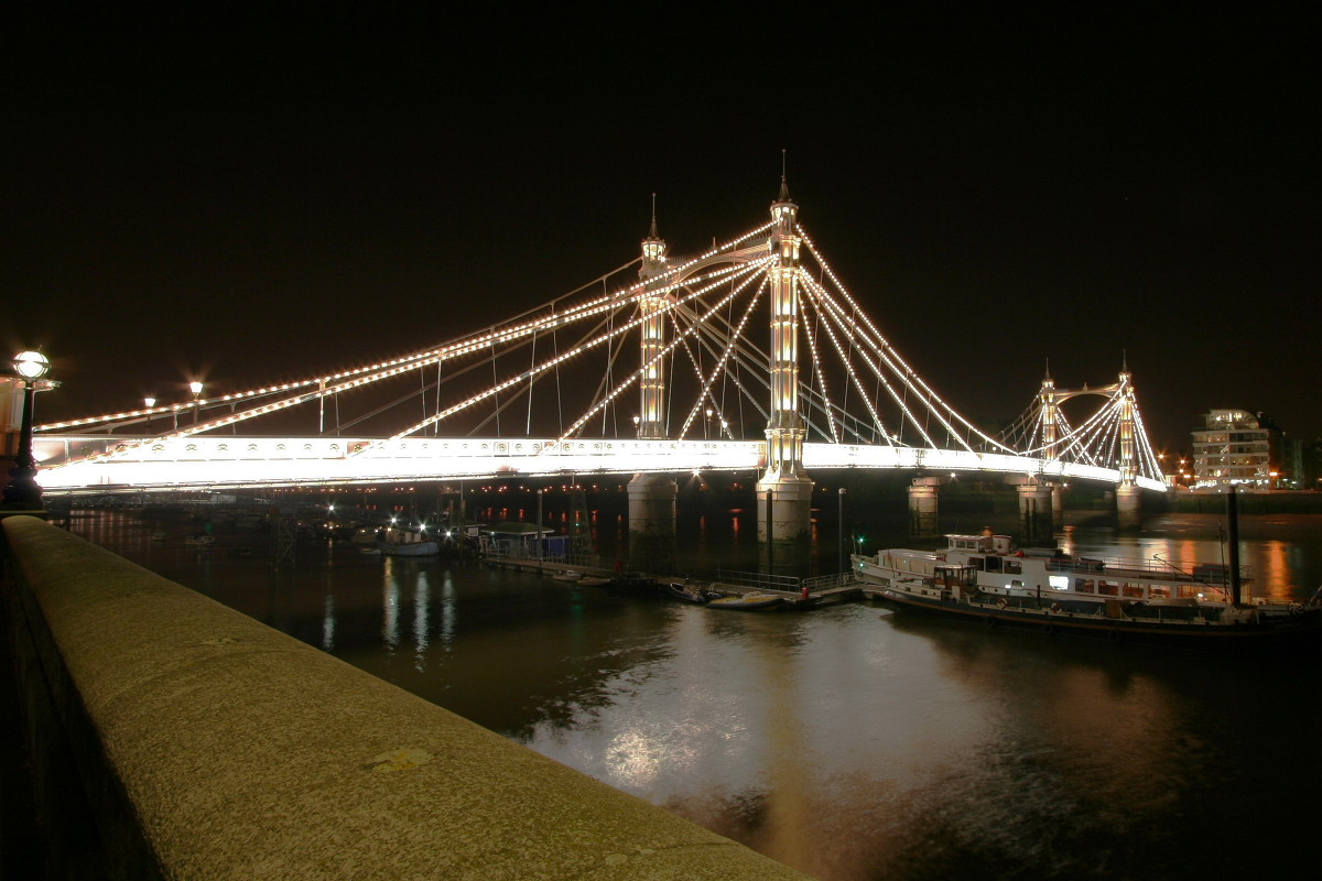 Albert Bridge and the River Thames at night in London, England. Photograph taken 14 May 2006.